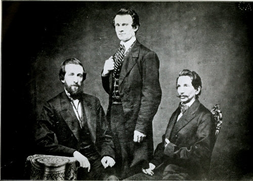 Beadle publishing firm, c1862, publishing team, Erastus Beadle, David Adams, and (possibly) Irwin Beadle, published in BULLETIN OF THE NEW YORK PUBLIC LIBRARY OF JULY 1922